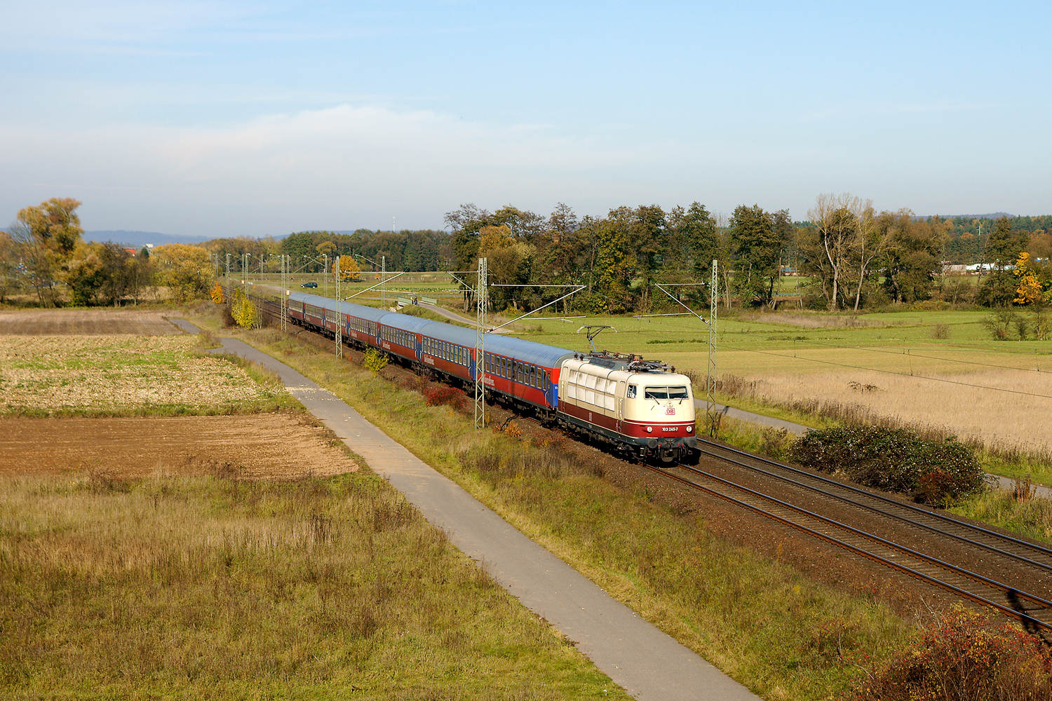 103 245 with D 2496 near Hallstadt (Leipzig - Nürnberg)